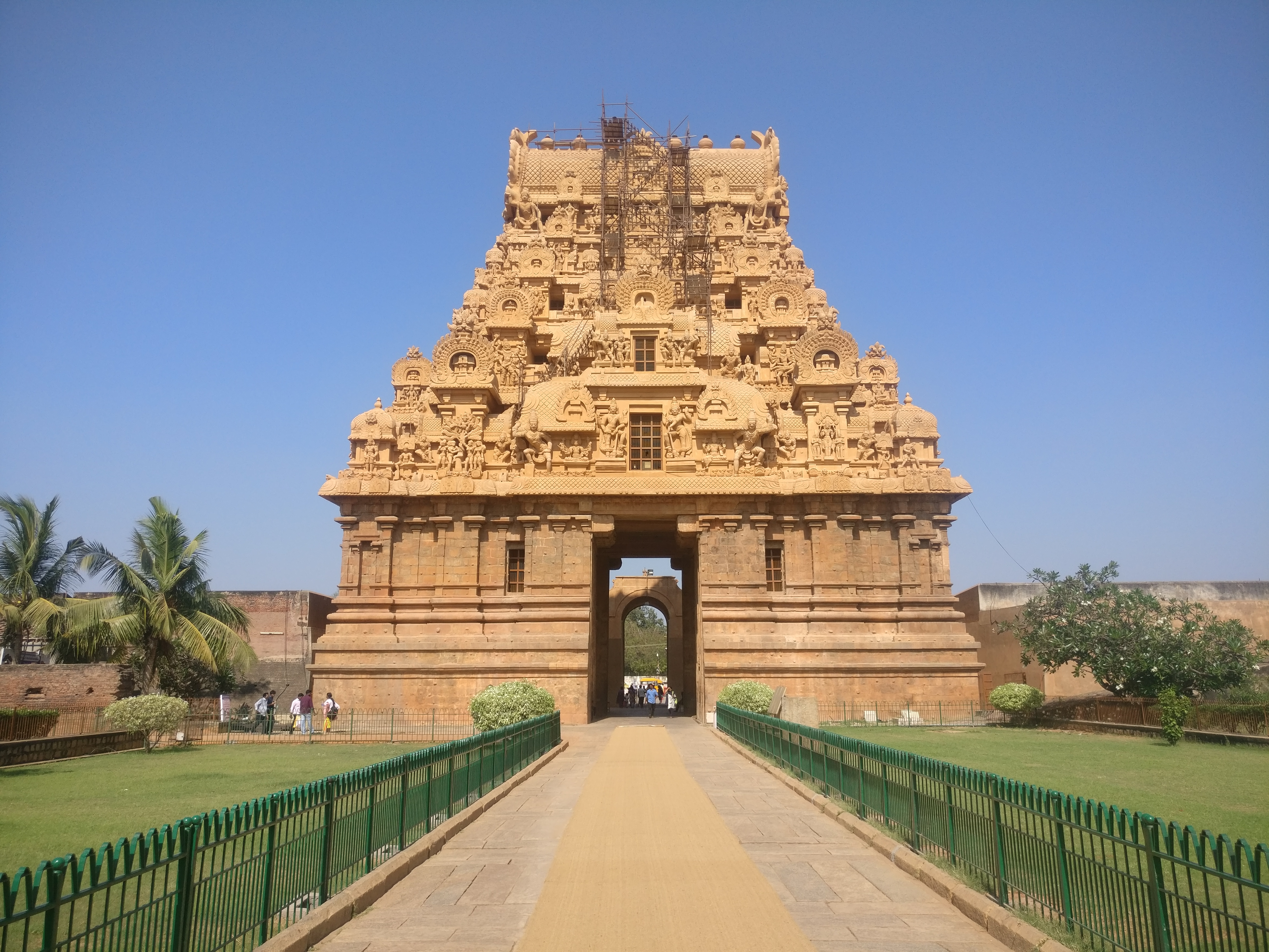 Brihadeshwara temple(Big Temple) Thanjavoor